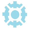 Former Kuwana Mie chapter